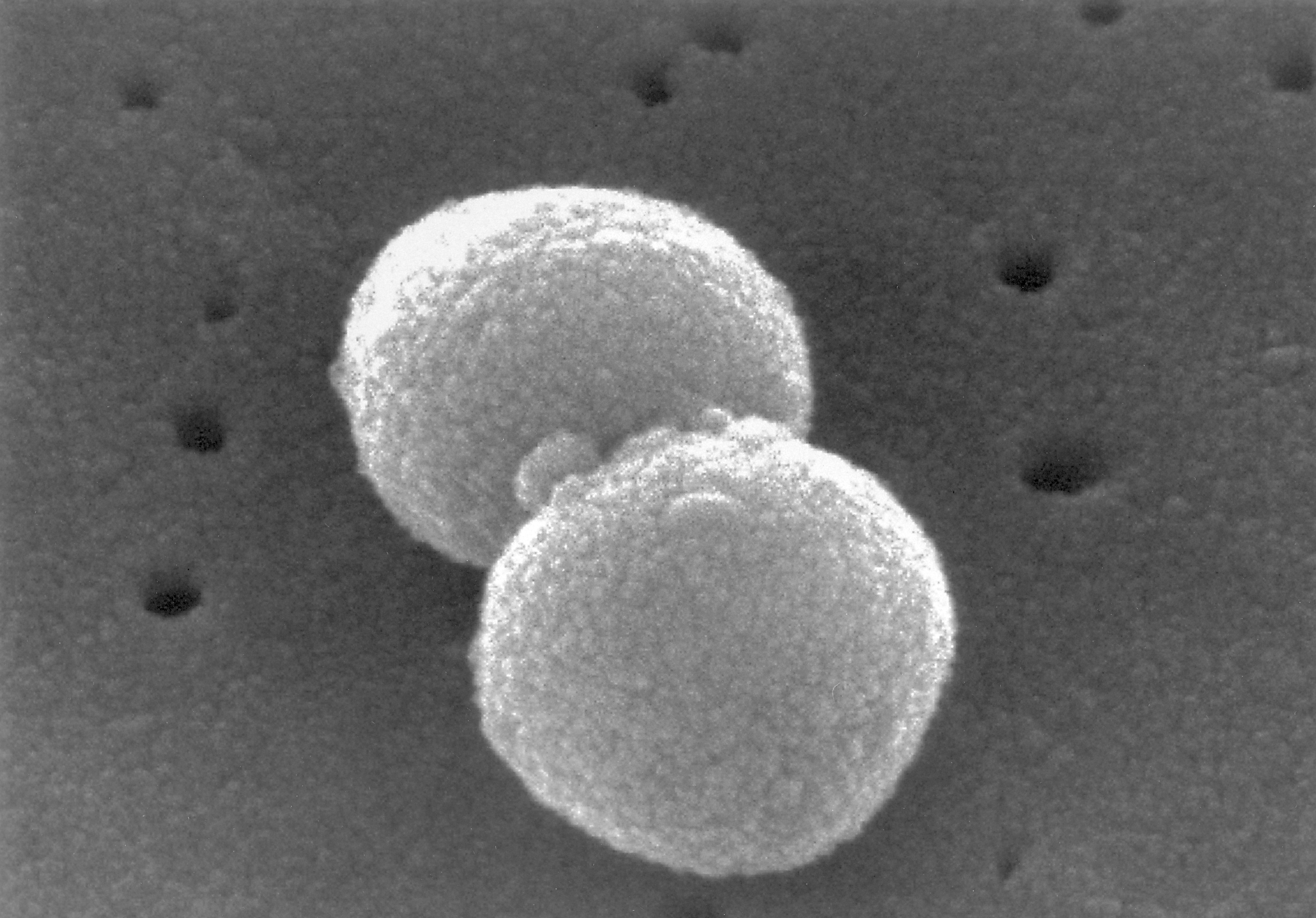 Scanning Electron Micrograph of Streptococcus pneumoniae (Pneumococcus; Streptococci).